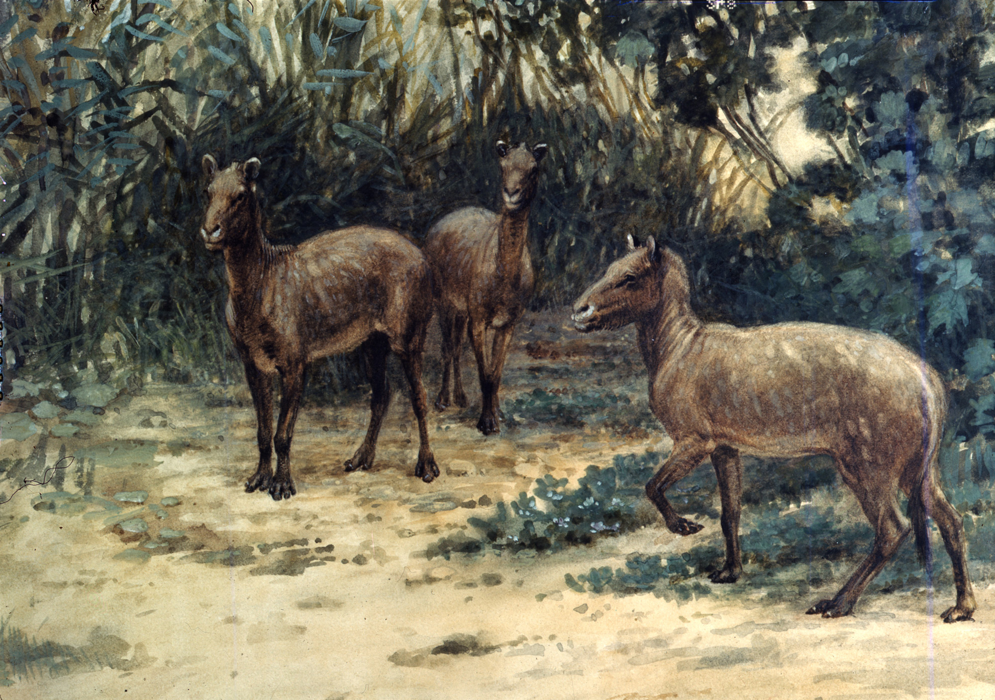 Painting at the AMNH.